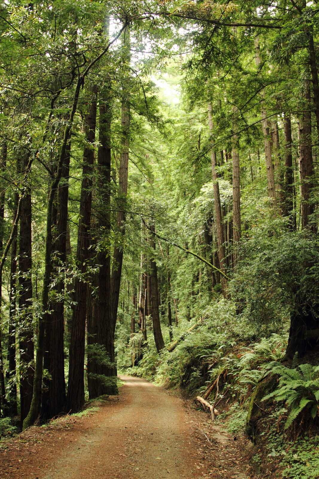 Olmo Fire Road in Butano State Park. Santa Cruz Mountains - California, USA